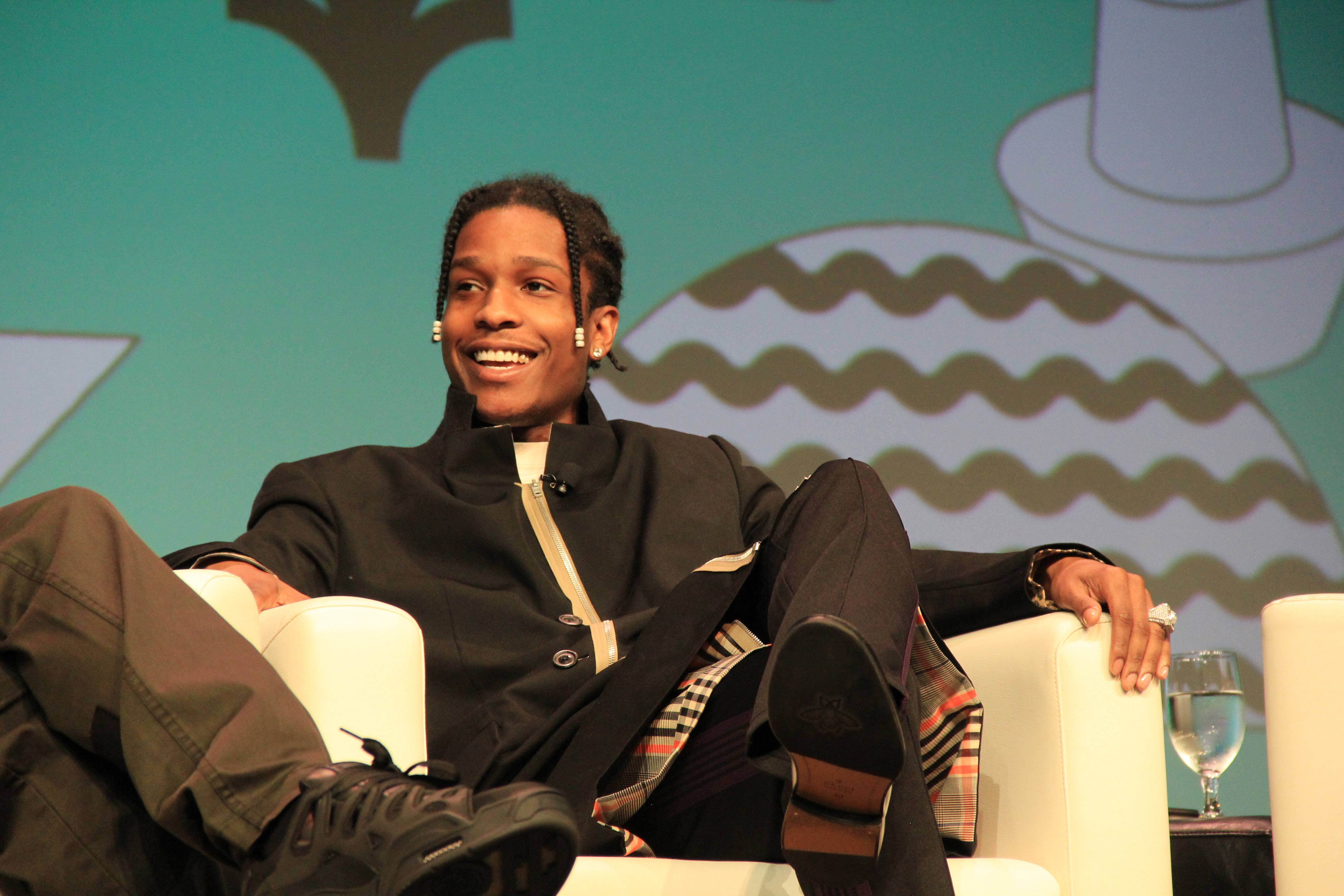 South by Southwest 2019